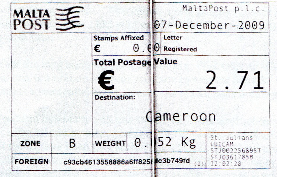 Meter stamp catalog image, Malta type PO1